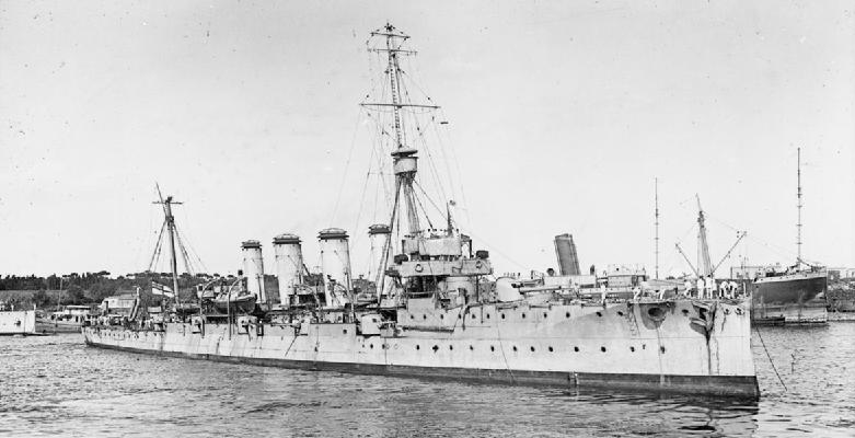 British light cruiser HMS GLOUCESTER at Brindisi.